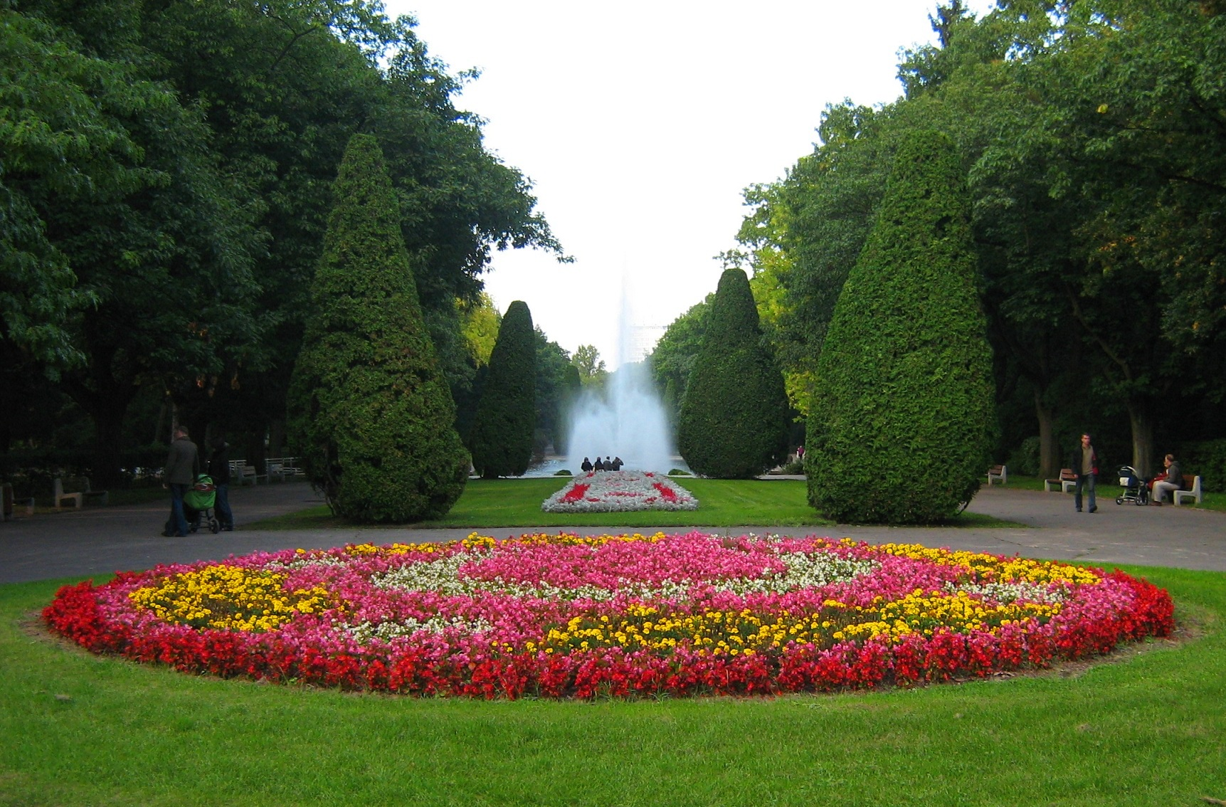 Białystok. Planty Park (Valentine Avenue)